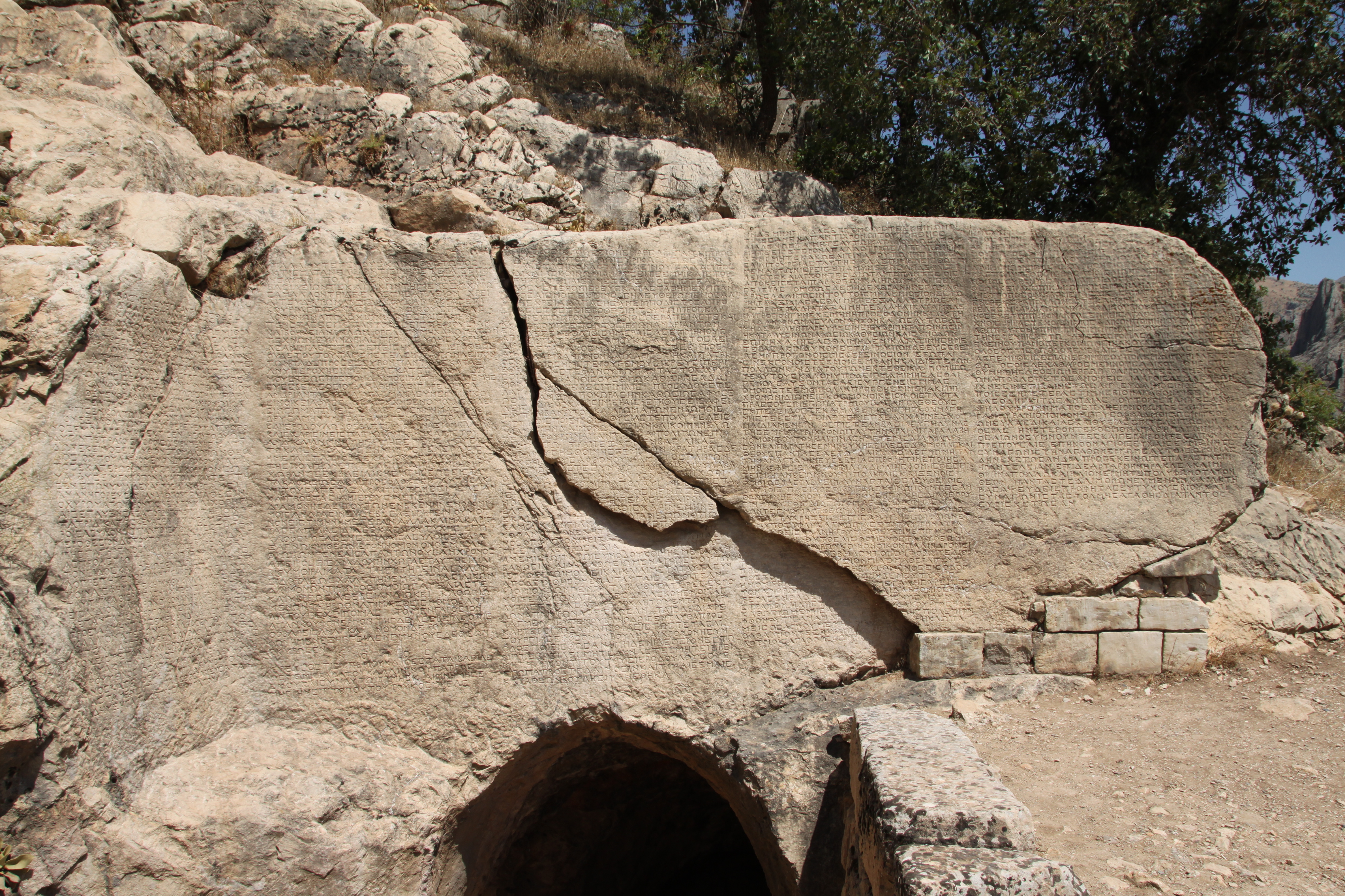 Greek Epigraph, the largest Epigraph (inscription) in Anatolia - Hierothesion (tomb-sanctuary) of King Mithridates Kallinikos Nymphaios Arsameia